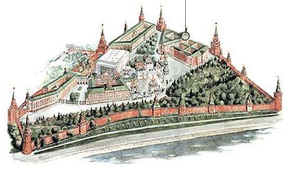 Overview map of the Moscow Kremlin. Location of Senatskaya Tower marked.